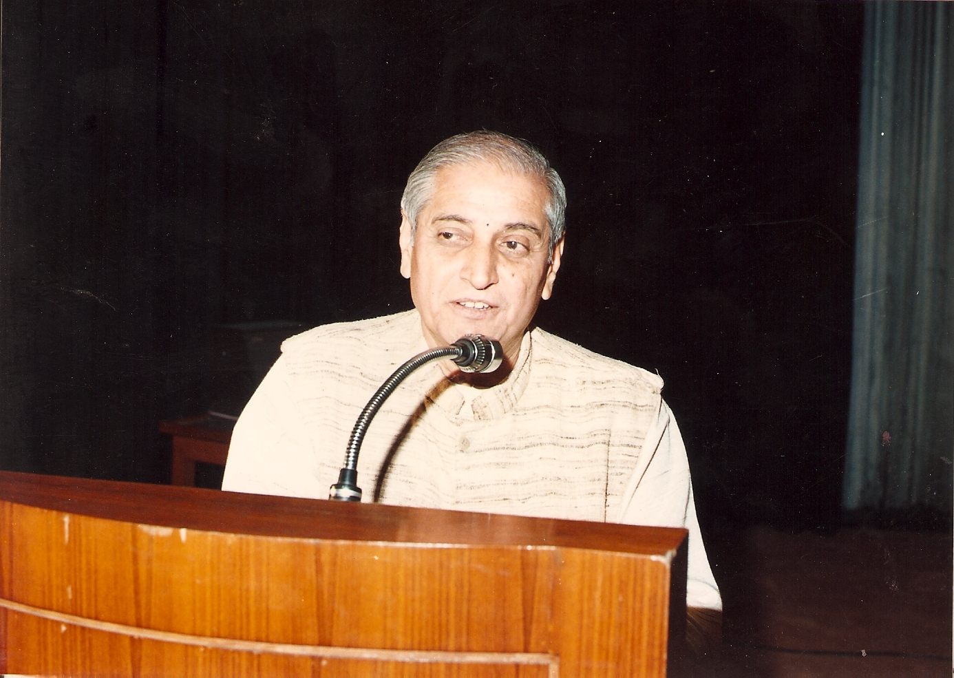 Panduranga Rao speaking at a public meeting